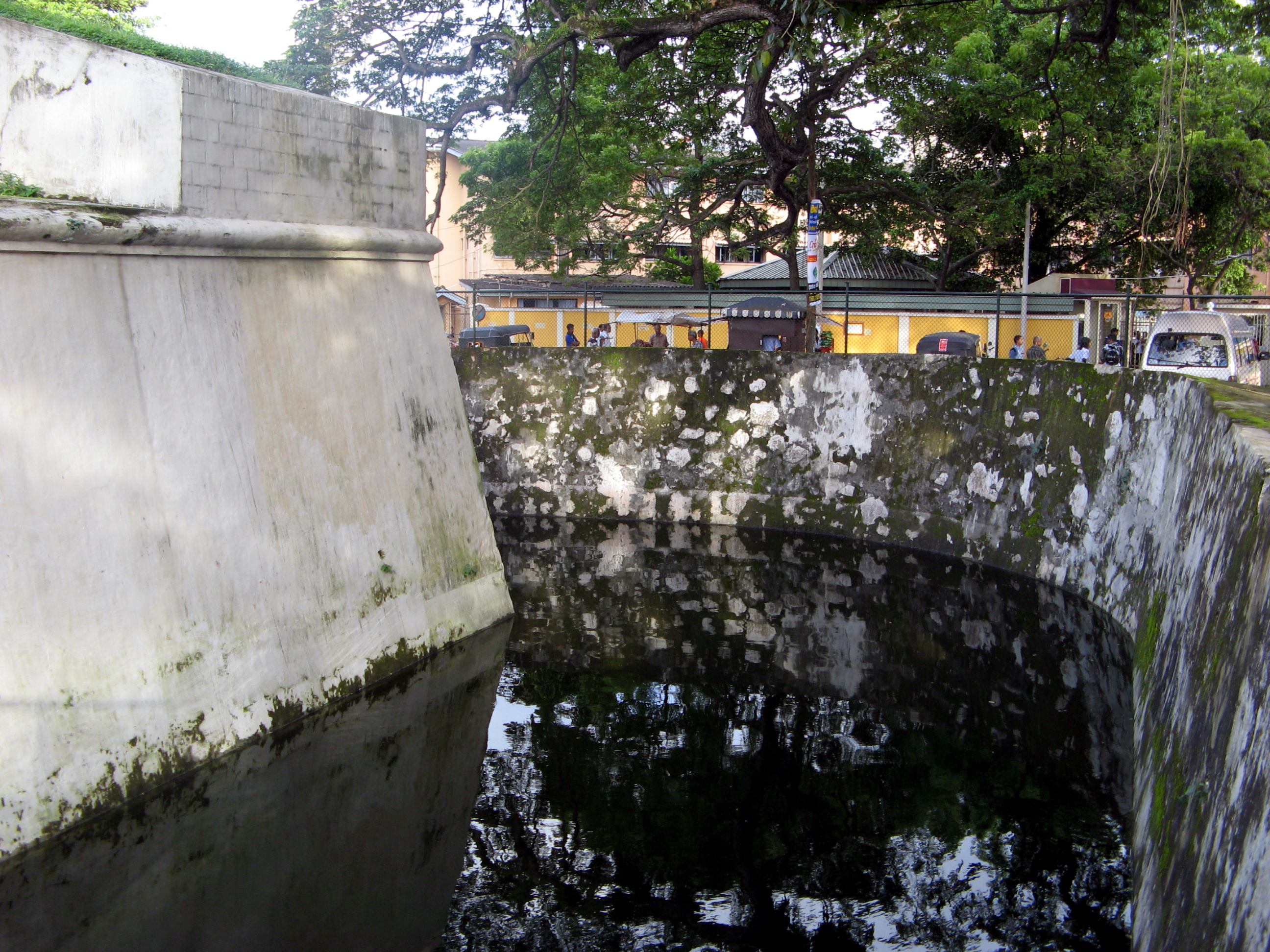 The moated Star Fort was constructed to defend the river crossing to the main fort, and also contained a prison. The Dutch kept crocodiles in the moat, as a deterrent to potential attackers or escapees. The river that fed the moat, and the lake that fed the river, are still infested with these creatures.